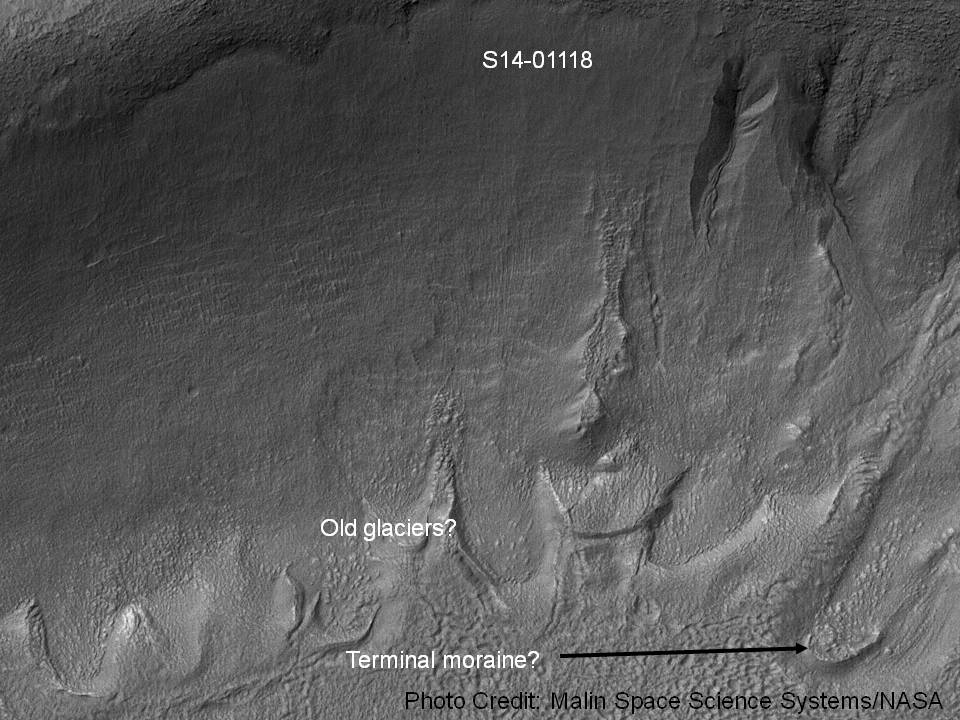 gullies and tongue-shaped glacier. This image was taken with the Mars Orbital Camera MOC) on the Mars Global Surveyor MGS). It's id number is S14-01118, and its location is 222.93 degrees west longitude and 37.43 degrees south latitude. The photo credit is Malin Space Science Systems/NASA.